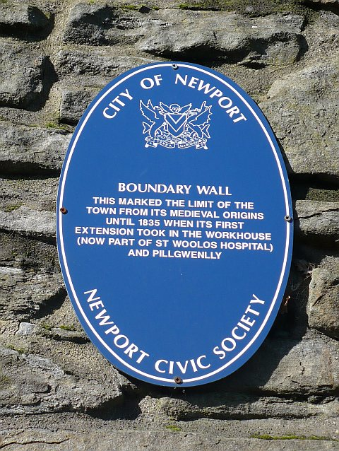 Plaque near St Woolos Cathedral The location of this plaque can be seen here 716022.